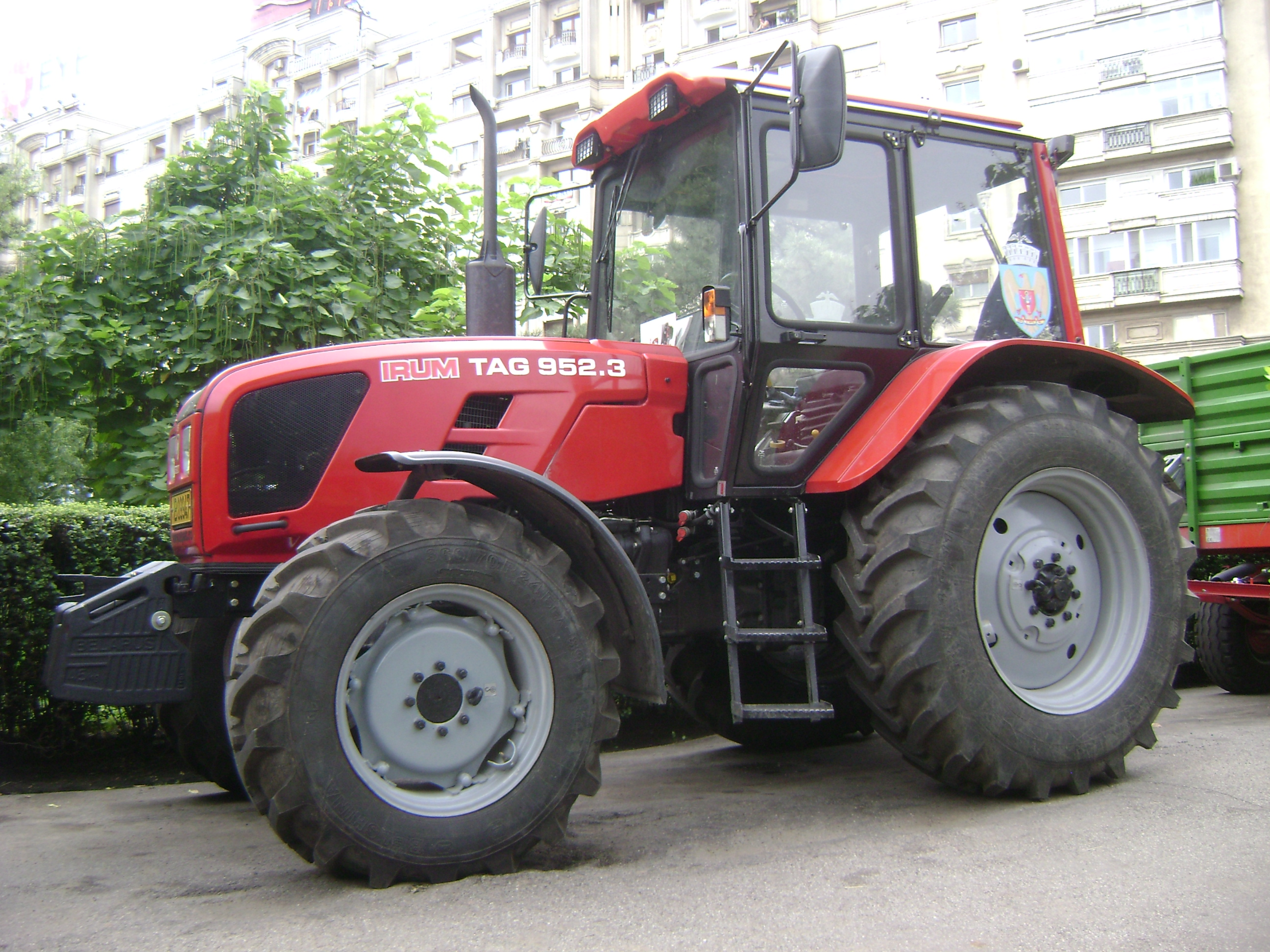 Belarus 952.3 Tractor used for park maintenance in Bucharest (July 2011)